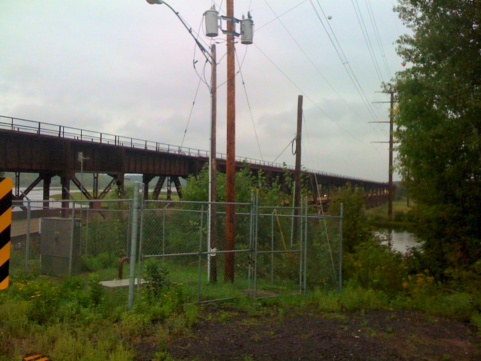 Oliver Bridge that spans the Saint Louis River between Superior, Wisconsin and Duluth, Minnesota.